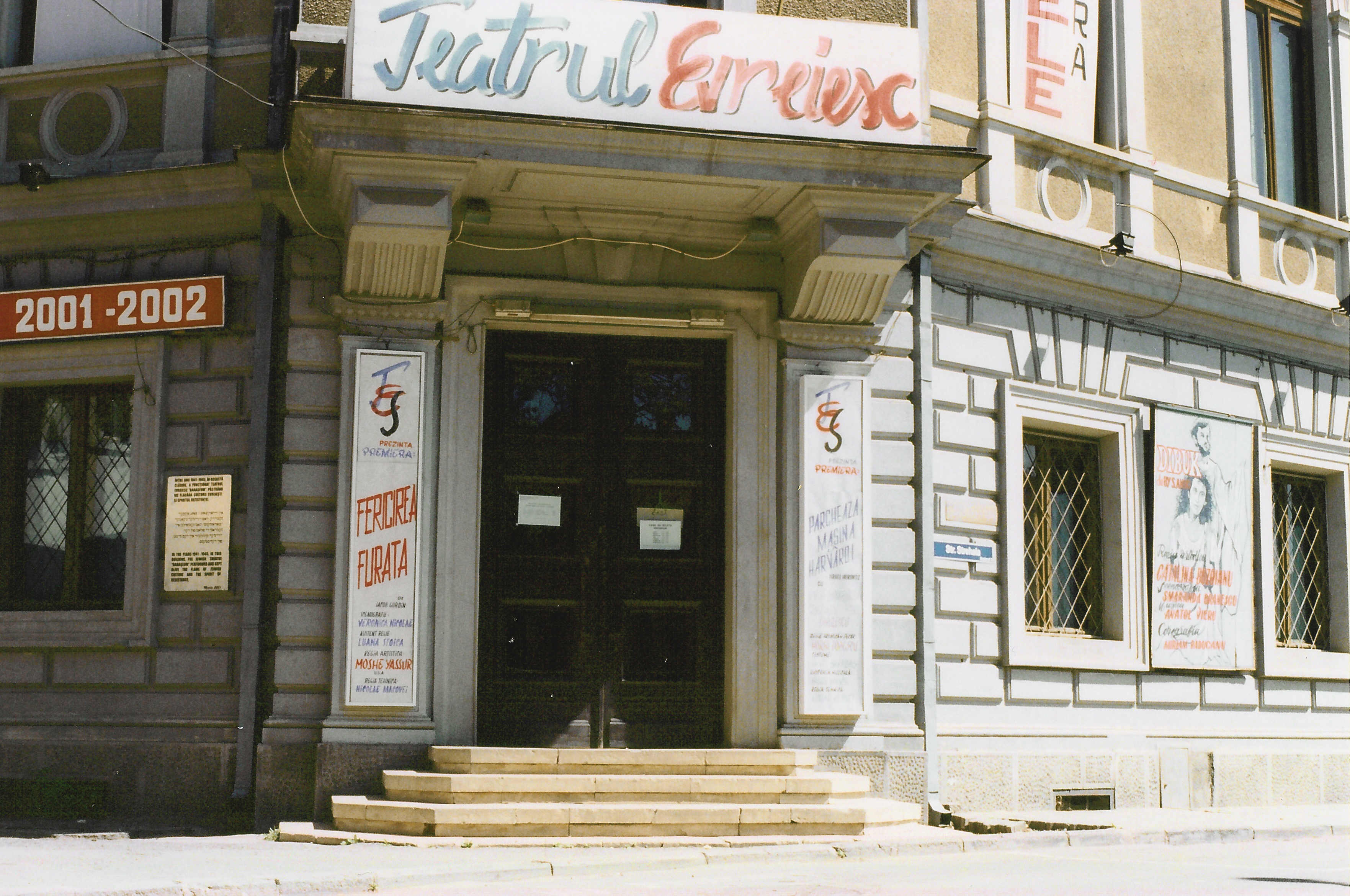 State Jewish Theater, Str. Iuliu Barash 15, Bucharest, Romania